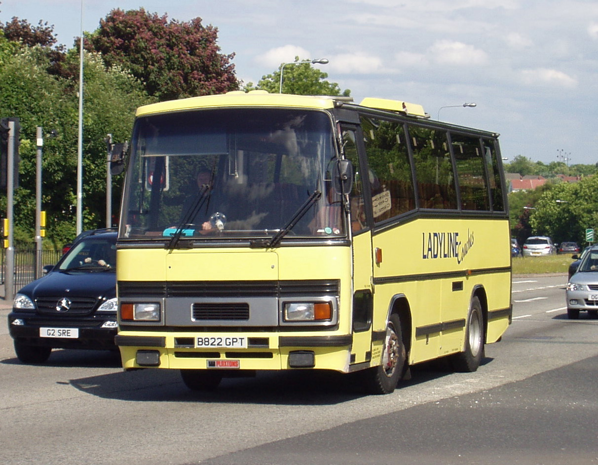 A small coach in Winsford, Cheshire. Chassis: Bedford YMP (shortened). Bodywork: Plaxton Paramount I 3200.